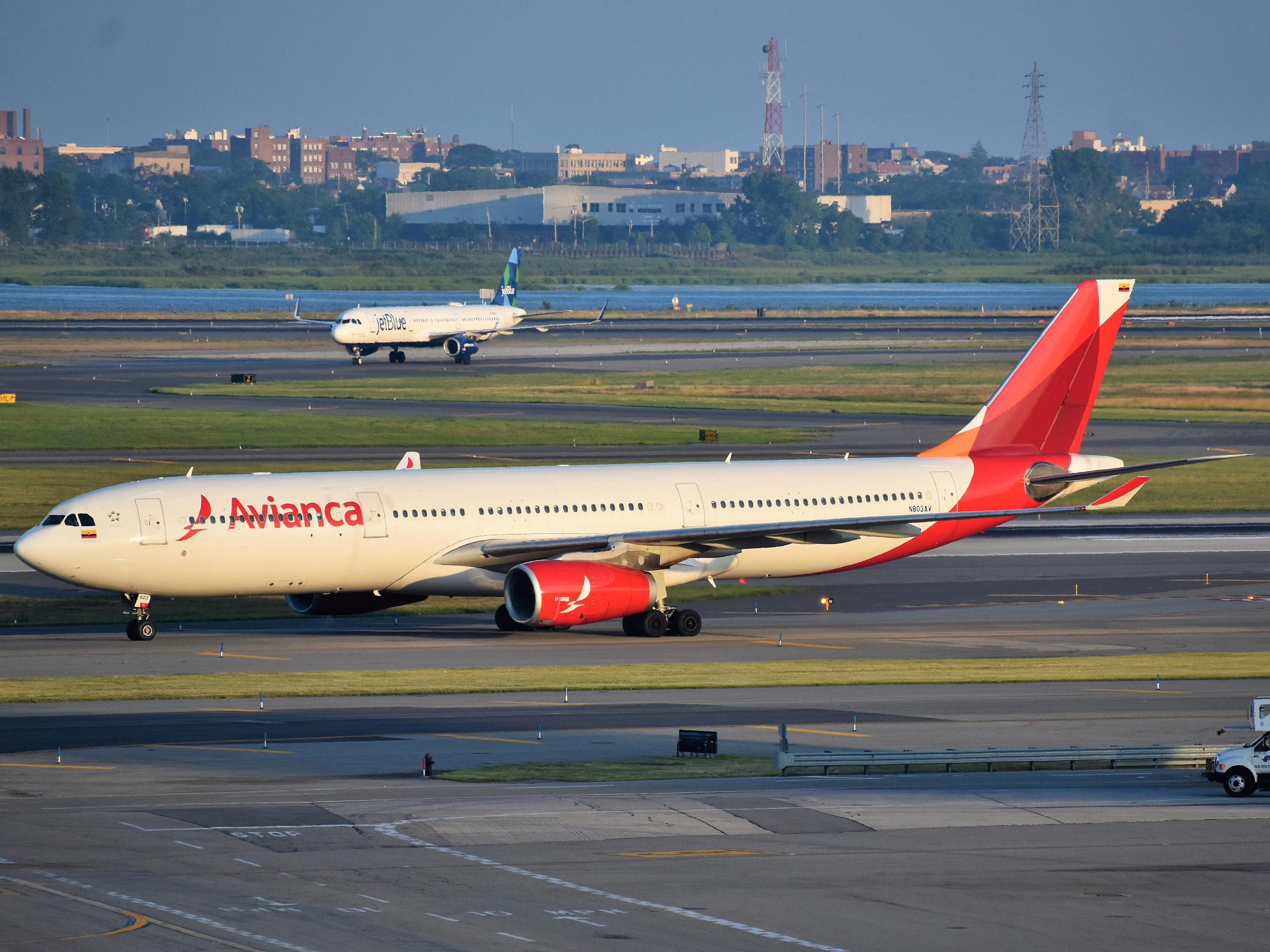 An Avianca Airbus A330-300 is taxiing to its gate at John F. Kennedy International Airport as Flight AV244.